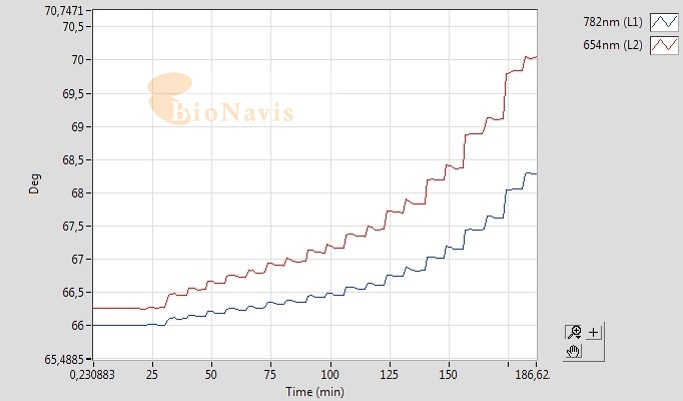 Twenty layers of PEM on a gold substrate measured by Multi-Parametric Surface Plasmon Resonance in real-time. Adsorption kinetics of PSS (poly(sodium 4-styrenesulfonate)) and PAH (poly(allylamine hydrochloride)) layers can be seen. Thickness of each layer is 2.5 nm. To ensure uniform charge, the gold surface of sensor was primed with PEI (poly(ethyleneimine)).